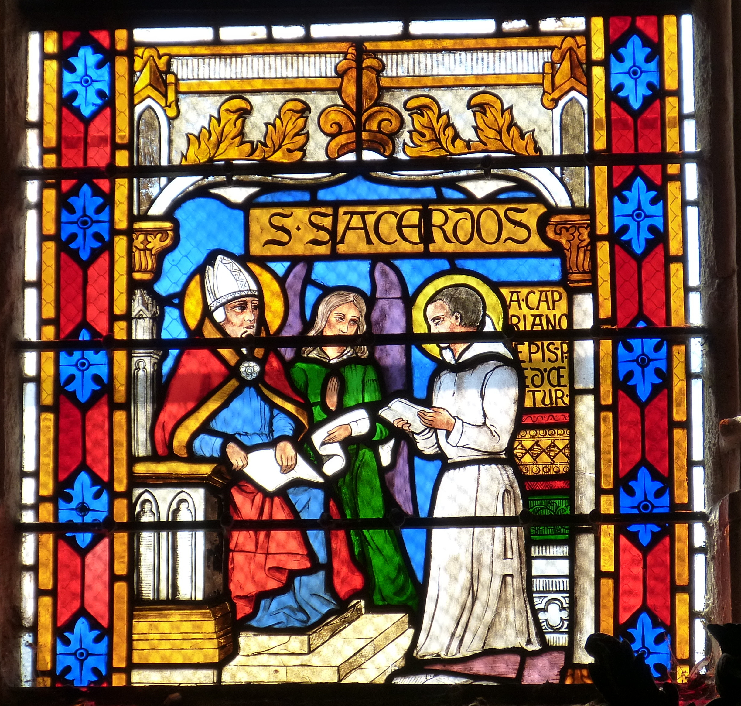 Sarlat-la -Canéda ( Dordogne ). Saint-Sacerdos de Sarlat cathedral - Stained glass window dedicated to Saint Sacerdos of Limoges: Saint Sacerdos is educated by bishop Capuanus of Cahors.